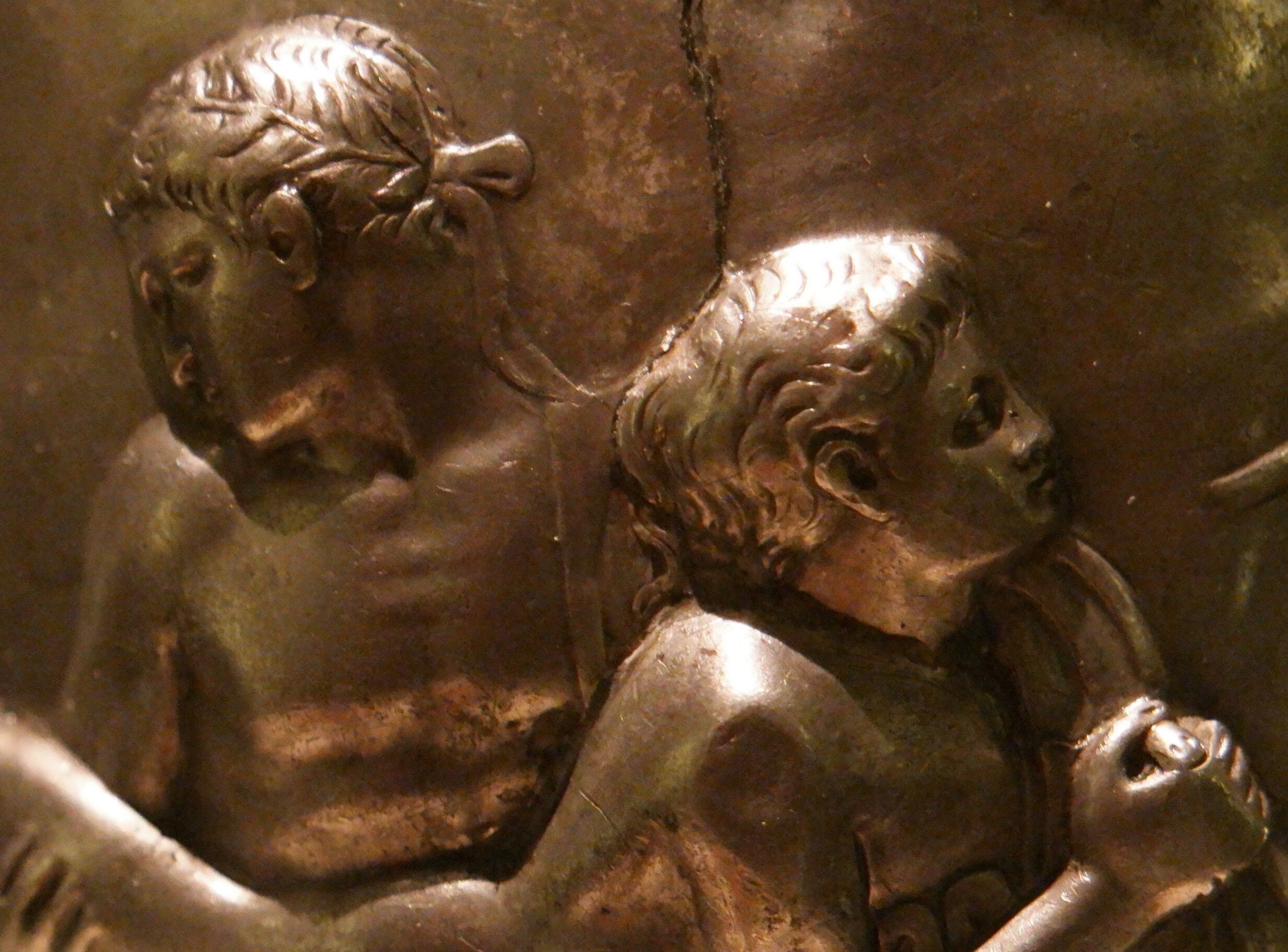 See Warren Cup. British Museum, GR 1999,0426.1